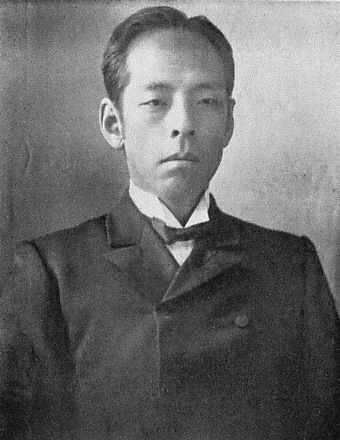 Yoriyasu Matsudaira